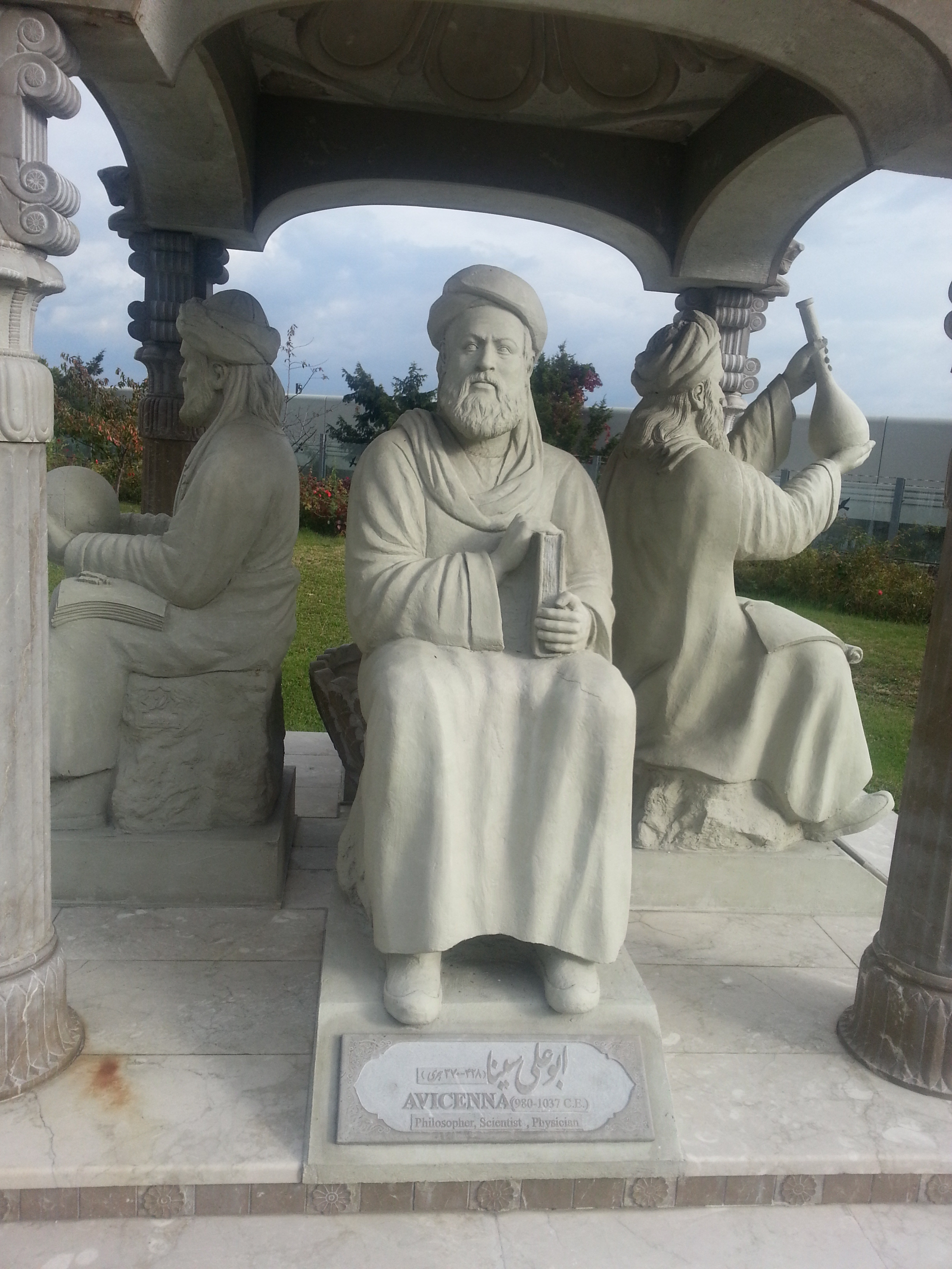 Persian Scholar Pavilion in Vienna International Centre donated by Iran. Jun 2009